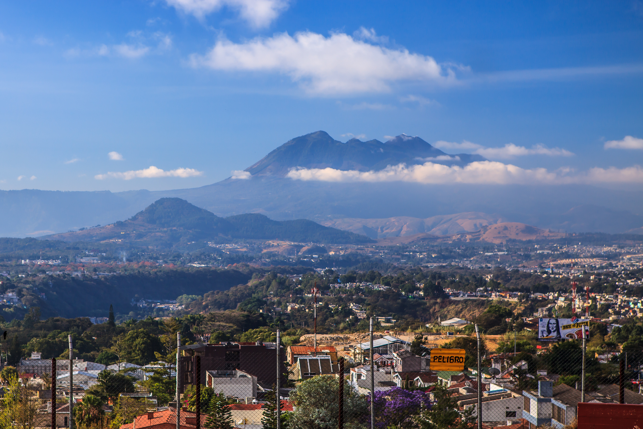 remnant volcanoes near Guatemala City